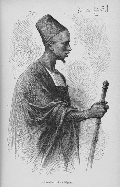 Ahmadou, roi de Ségou Ahmadu Tall (var. Ahmadu Seku/Sekou) Toucouleur ruler (Almami) of Ségou (now Mali) from 1864-1892.